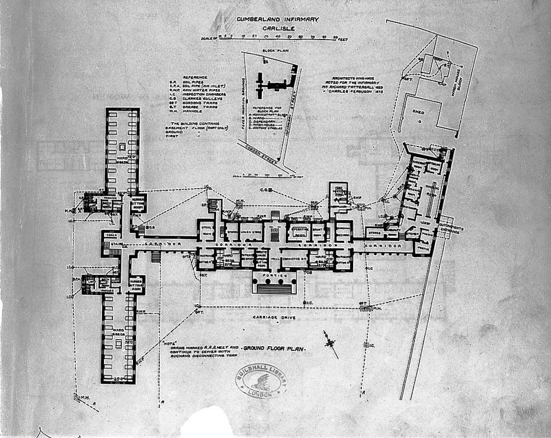 Plans of the Cumberland infirmary in Carlisle, 1893. From: Hospitals and asylums of the world : their origin, history, construction, administration, management, and legislation; with plans of the chief medical institutions accurately drawn to a uniform scale, in addition to those of all the hospitals of London in the jubilee year of Queen Victoria's reign